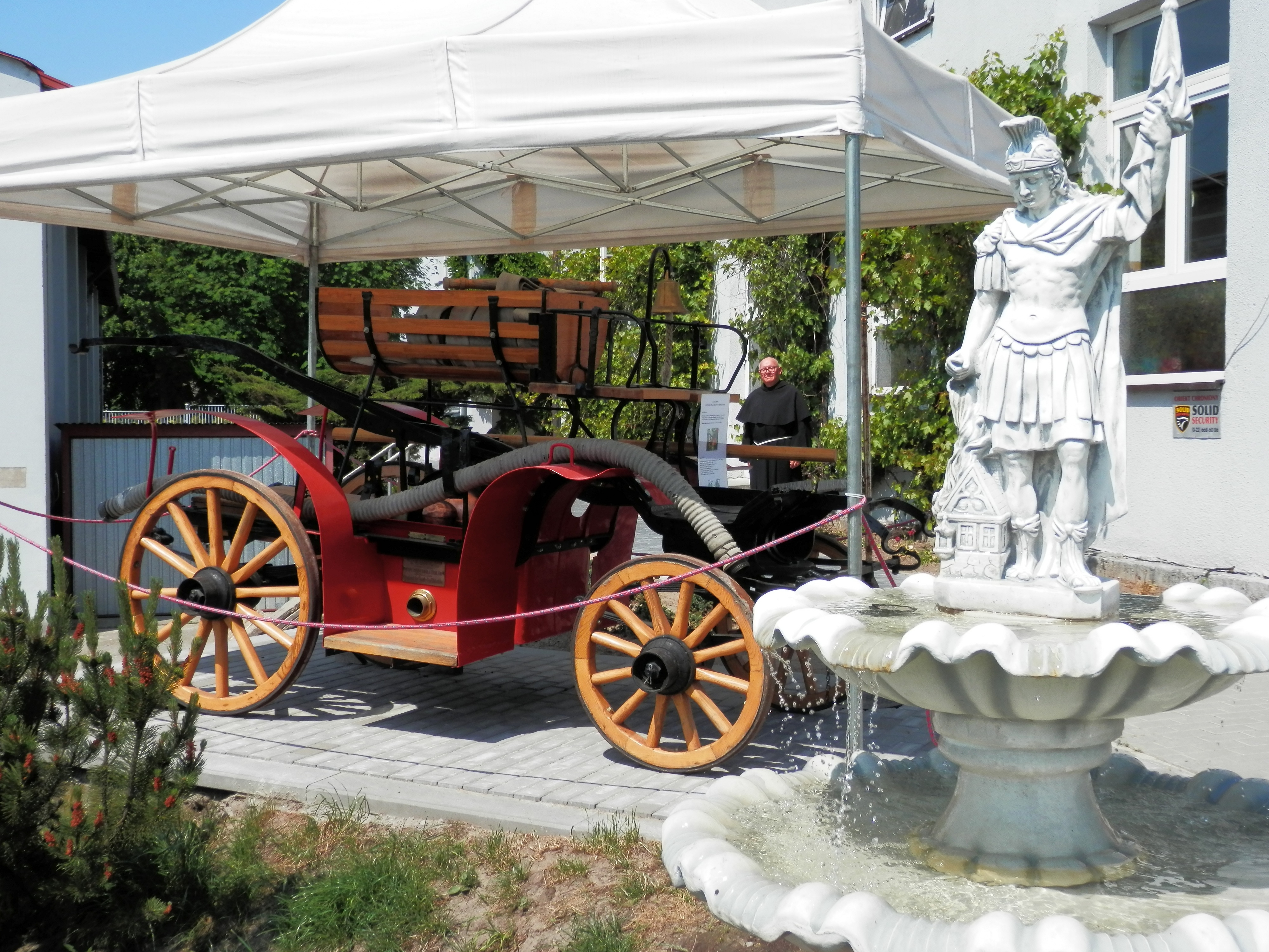 Volunteer firefighters museum in Niepokalanów, Poland